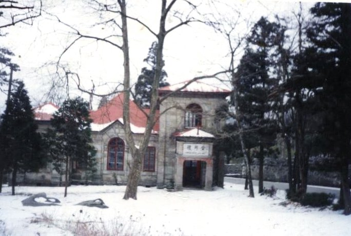 Old chapel at Mount Lu